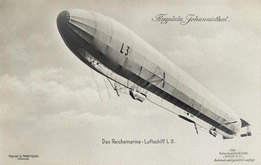 Reichsmarine-Luftschiff L 3